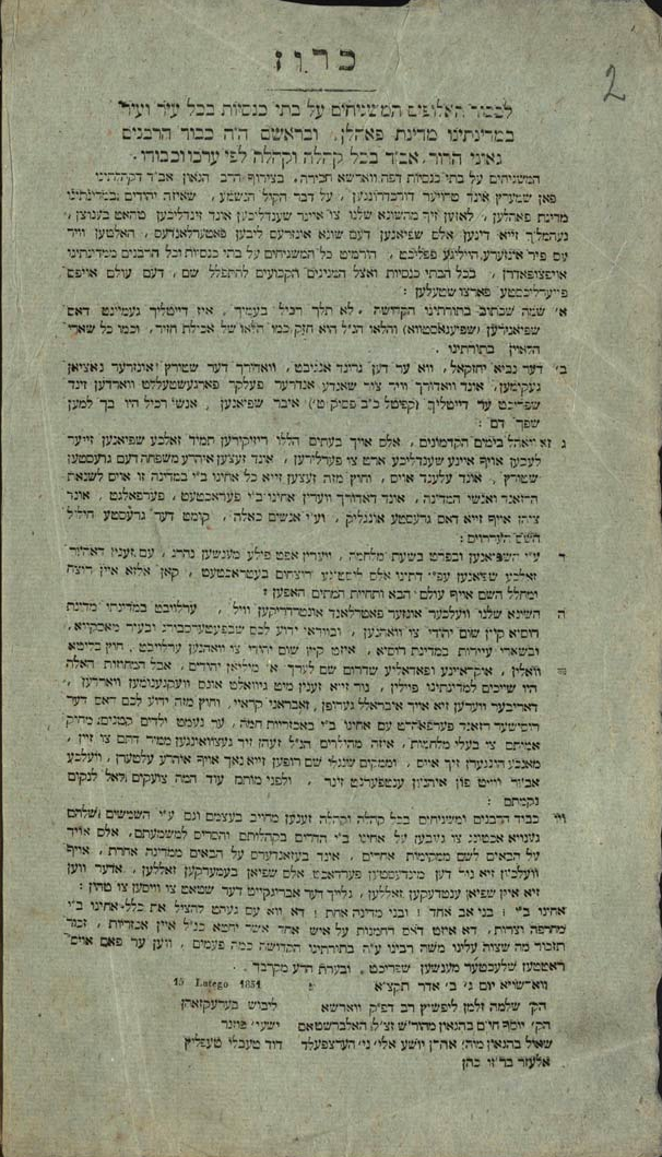 A leaflet that discourages the Jewish population from spying for the Russians during November Uprising 1831